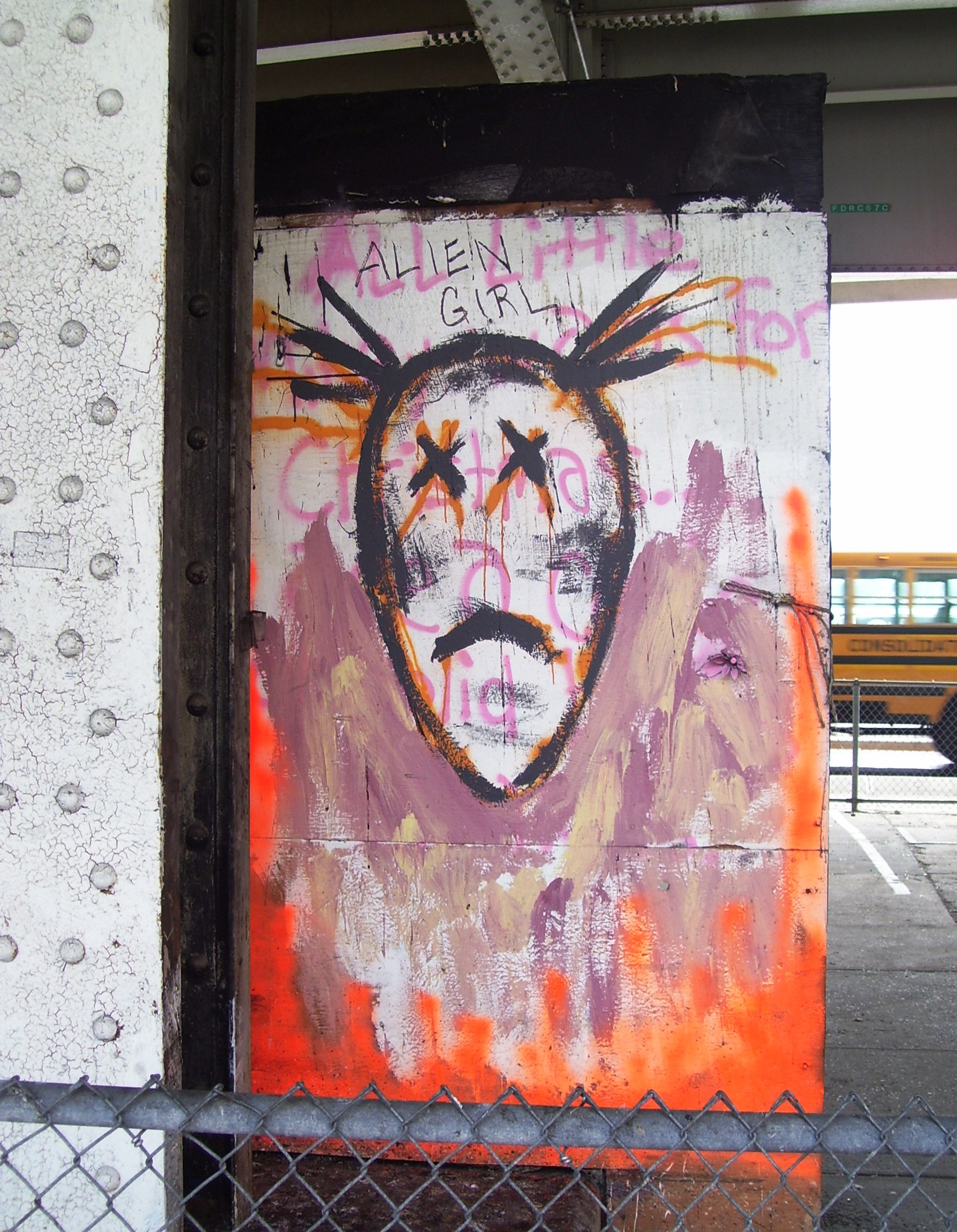 "Alien Girl" street art, under the FDR Drive at 23rd Street in Manhattan, New York City